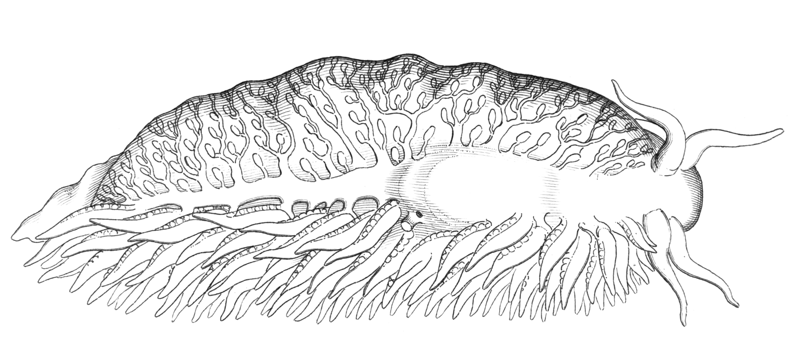 Drawing of dorsal view of the Fiona pinnata with cerata removed on the left side. There visible efferent vessels leading from cerata to branchio-cardiac vessel. There is also visible heart in the centre. Anus is visible as tube like opening next to the heart. There is also other opening next to anus, which probably leads into the kidney.